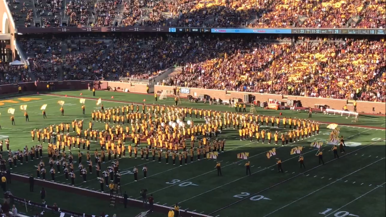 The Pride of Minnesota salutes the United States Navy during the halftime show at TCF Bank Stadium.